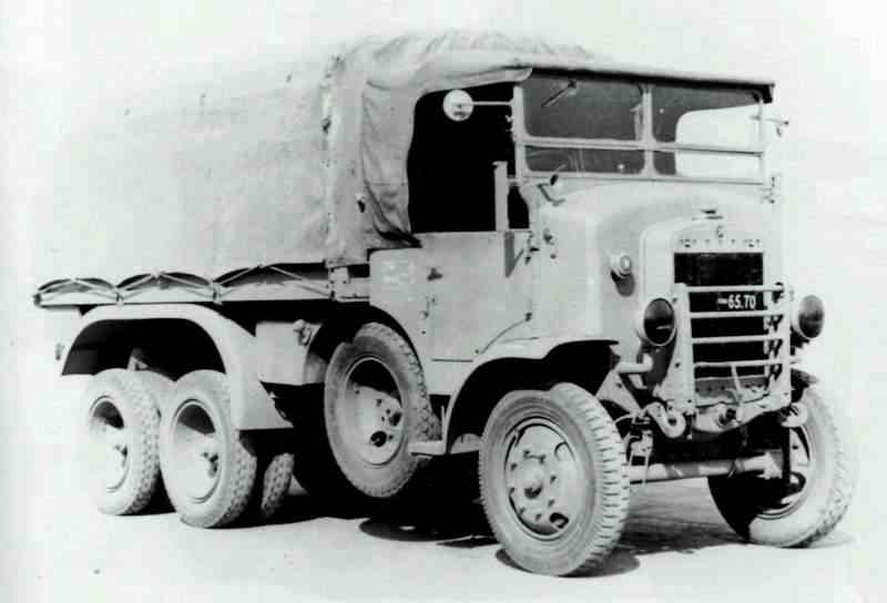 WW2 era italian truck